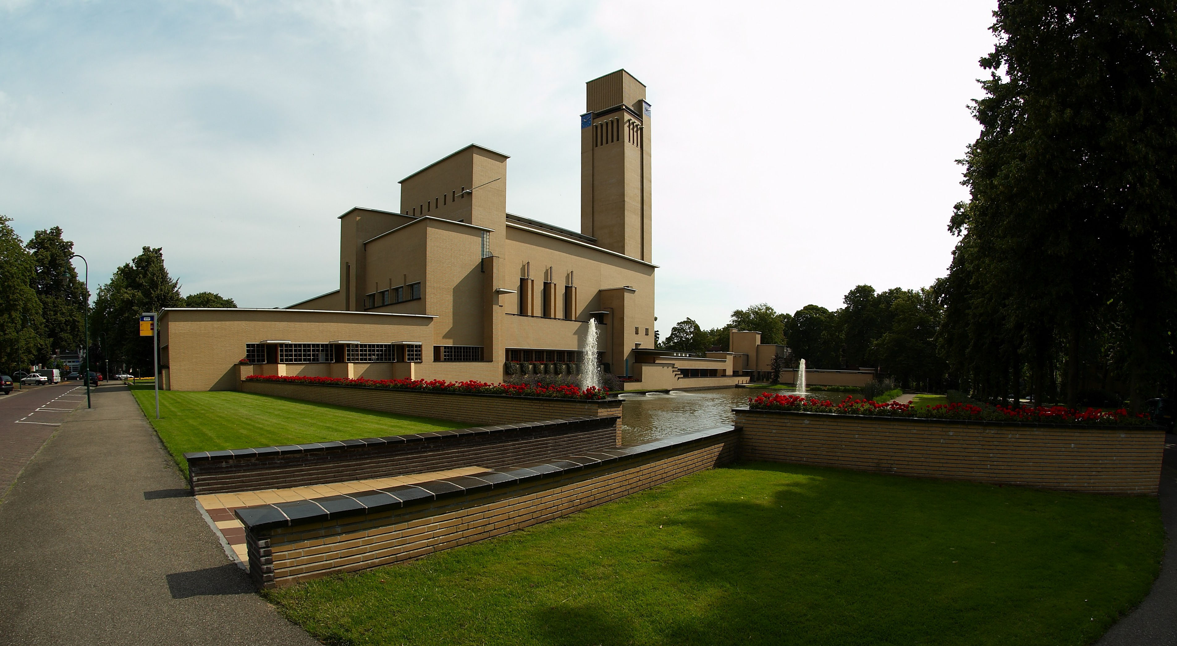 City Hall, Hilversum, The Netherlands, 1928-1931. Designed by Willem Marinus Dudok. Looking direction NE.